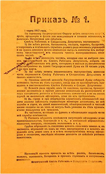 Prikaz nº1, Petrograd Soviet of Workers' and Soldiers' Deputies